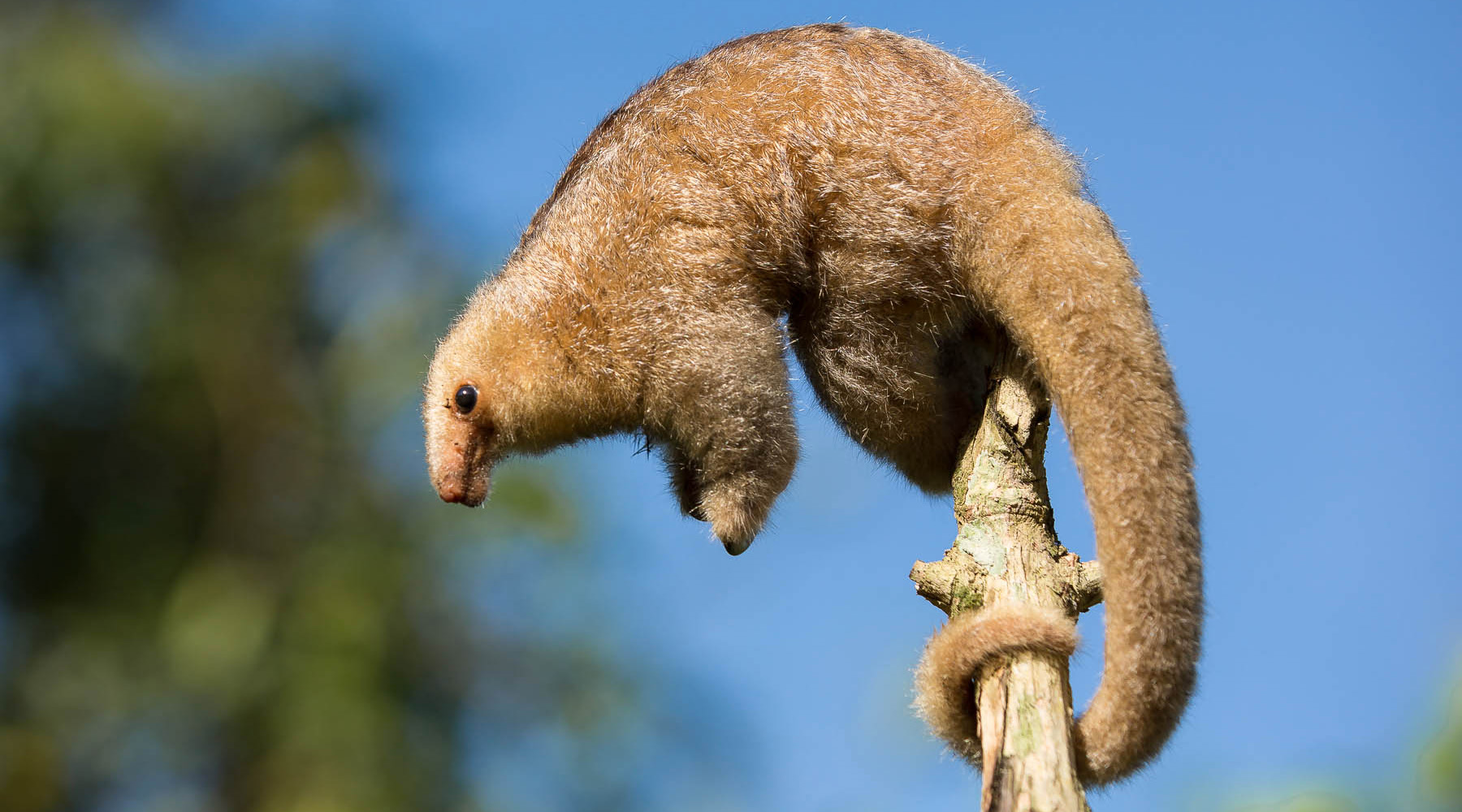 Cyclopes didactylus; crop of image Silky Anteater.jpg